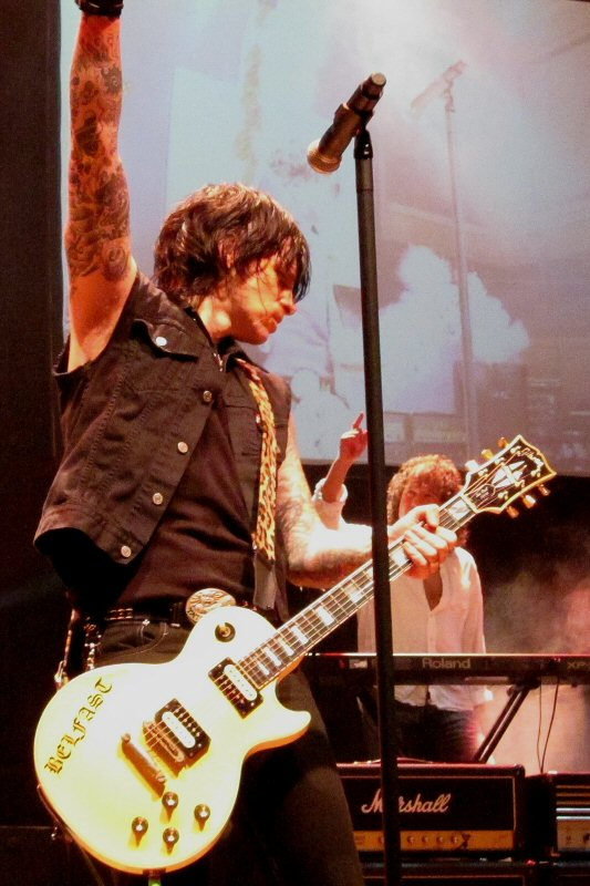 Ricky Warwick of Thin Lizzy at Aberdeen Music Hall January 6th 2011